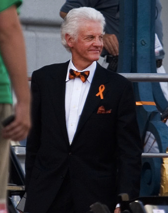 Bill Neukom looks out at the crowd